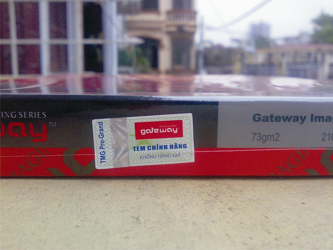 Hologram label on Gateway tracing paper box